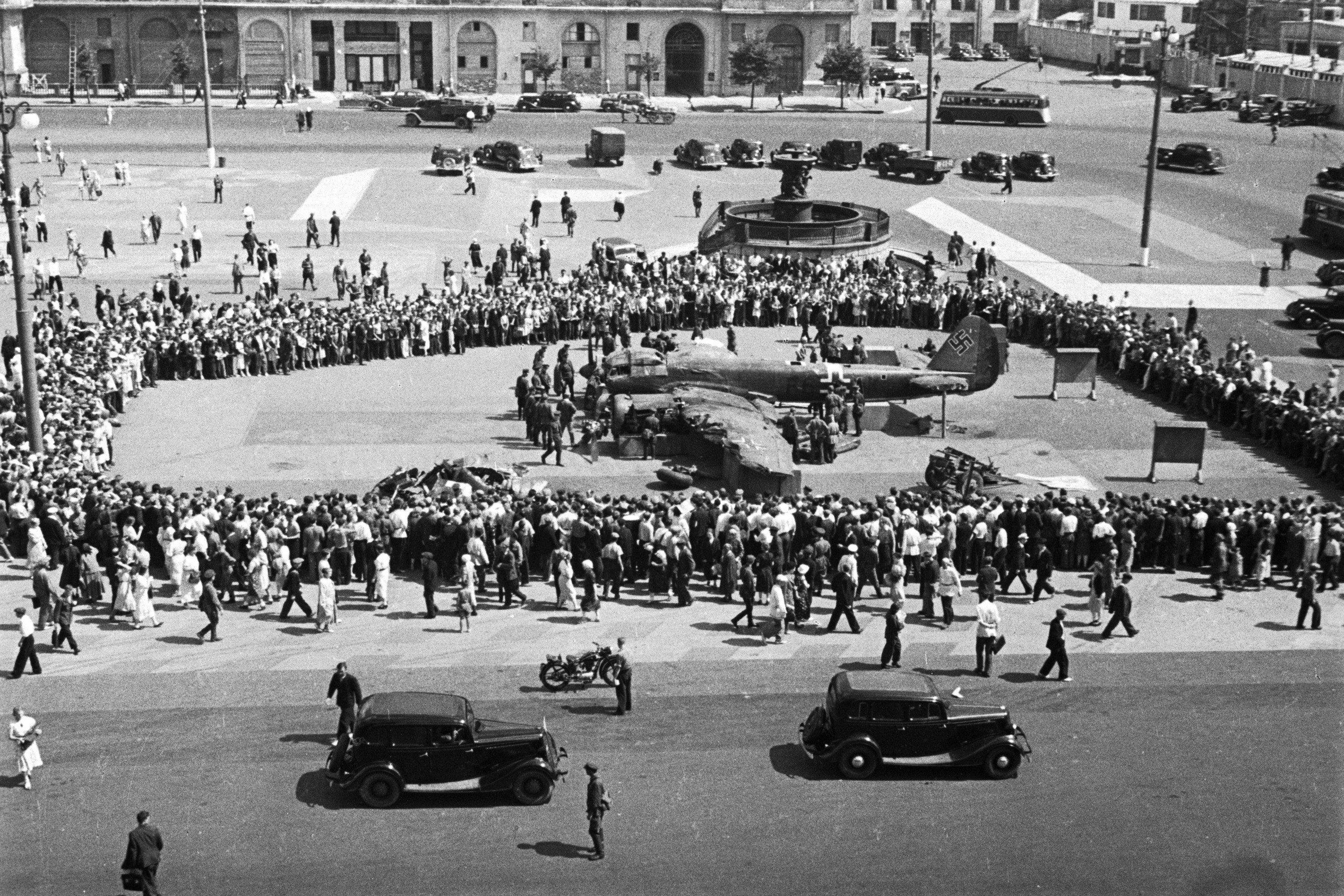 “Downed Nazi planes on Sverdlov Square”. Reconnaissance Junkers Ju 88 "F6+AK" of Aufkl.Gr.122 (Luftflotte 6) shot down near Duplevo village of Istrinsky District on 25 July 1941 is exhibited on Sverdlov (now Teatralnaya) Square.